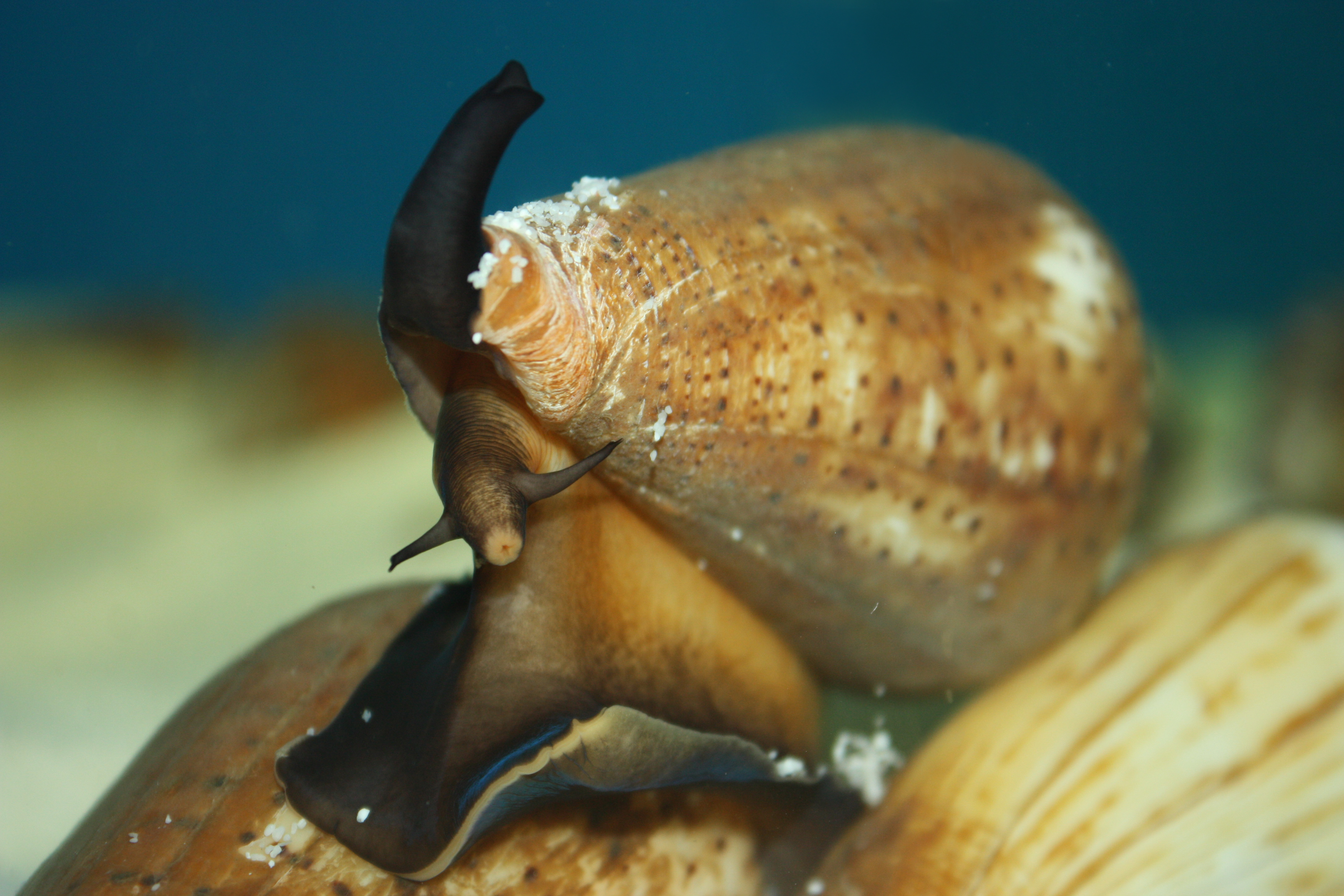 The vermivorous Chinese tubular cone snail, Conus betulinus, is the dominant Conus species inhabiting in the South China Sea. The transcriptomes of venom ducts and venom bulbs from a variety of specimens of this species were sequenced using both next-generation sequencing and traditional Sanger sequencing technologies, resulting in the identification of more than 200 distinct conopetides.